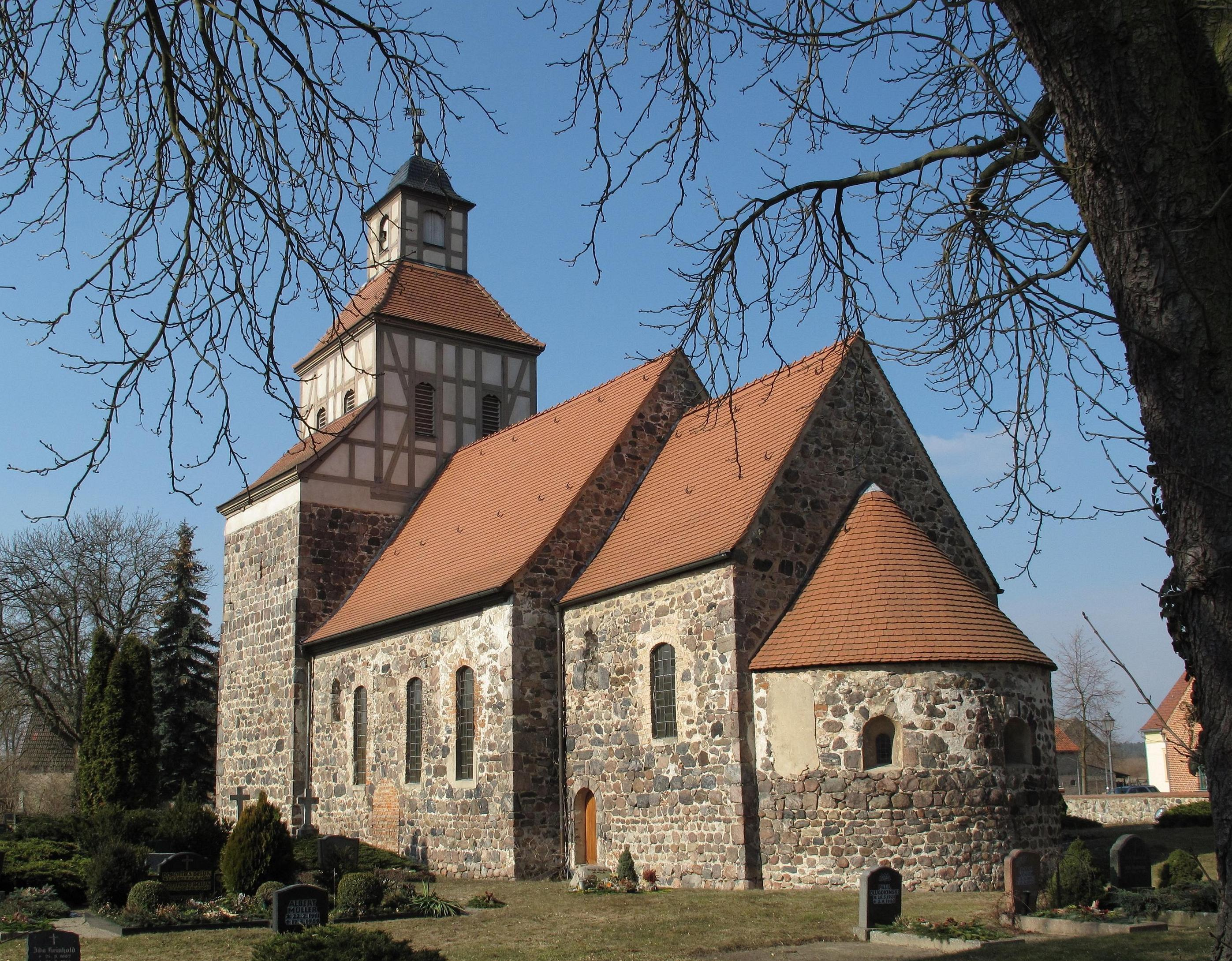 Village church Wildenbruch. Listed Fieldstone church, built in the 13th century. The timber framed addition on the center of the west tower was built in 1737 and after modifications in the meantime1992 reconstructed according to the plans from 1737. Contrary to many different depictions it is no Fortified church (german: Wehrkirche). Wildenbruch is a part of Michendorf in the district Potsdam-Mittelmark, state Brandenburg, Germany.